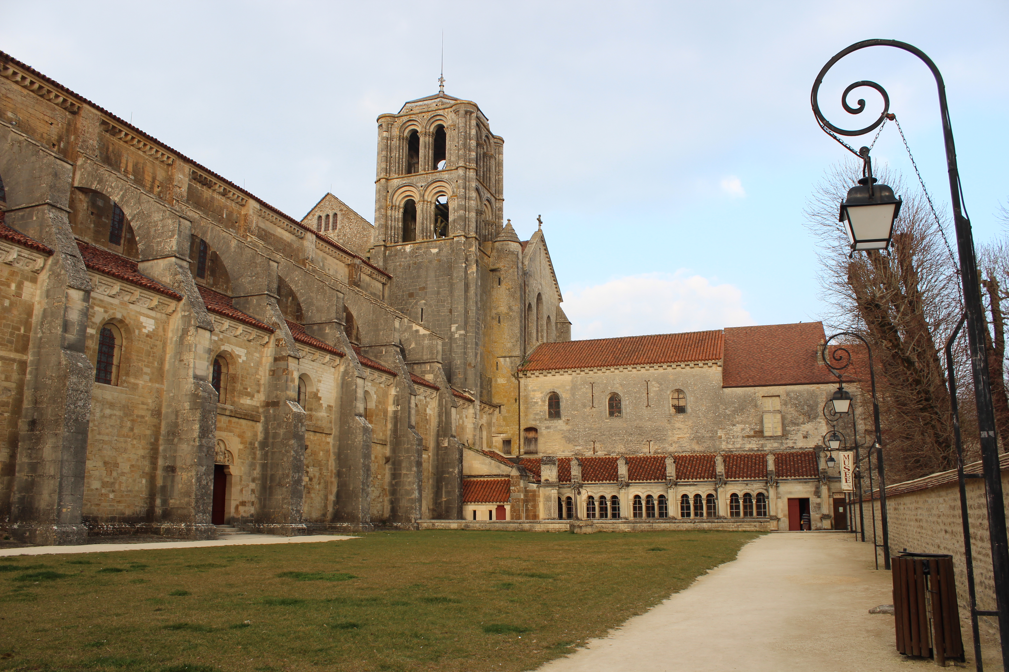 Vezelay Basilica